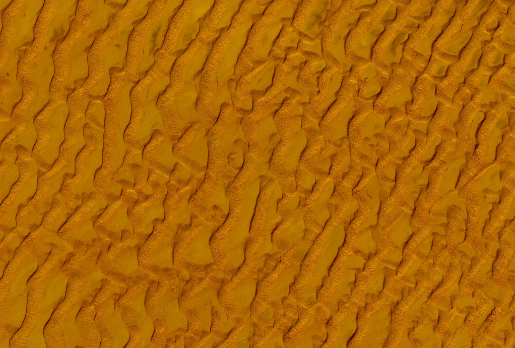 NASA Landsat 7 imagery of sand dunes of the Taklamakan Desert